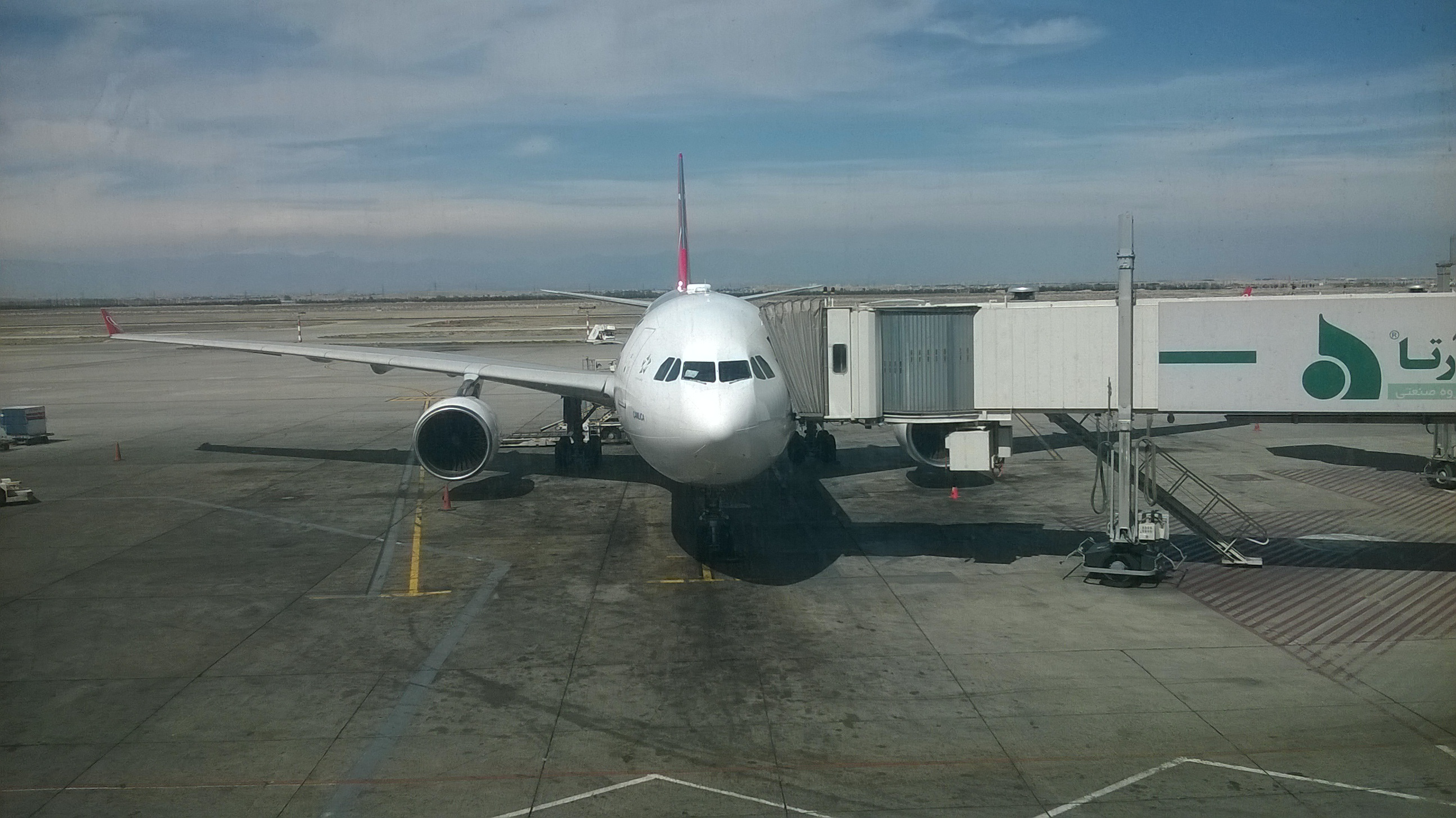 Turkish Airlines Airbus A330-300 attached to IKA airport’s jet-bridge